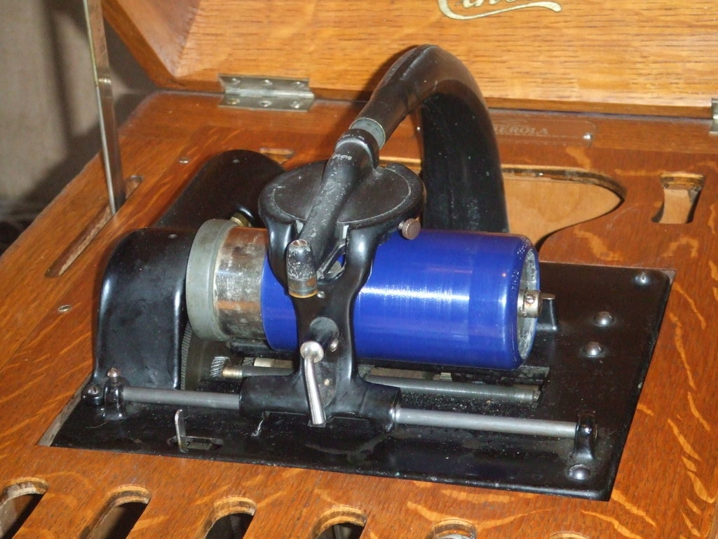 Close up of the mechanism of an Amberola or "Edison cylinder player", manufactured circa 1915.